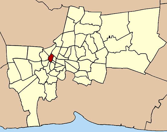 Map of Bangkok, Thailand, highlighting the Phra Nakhon district